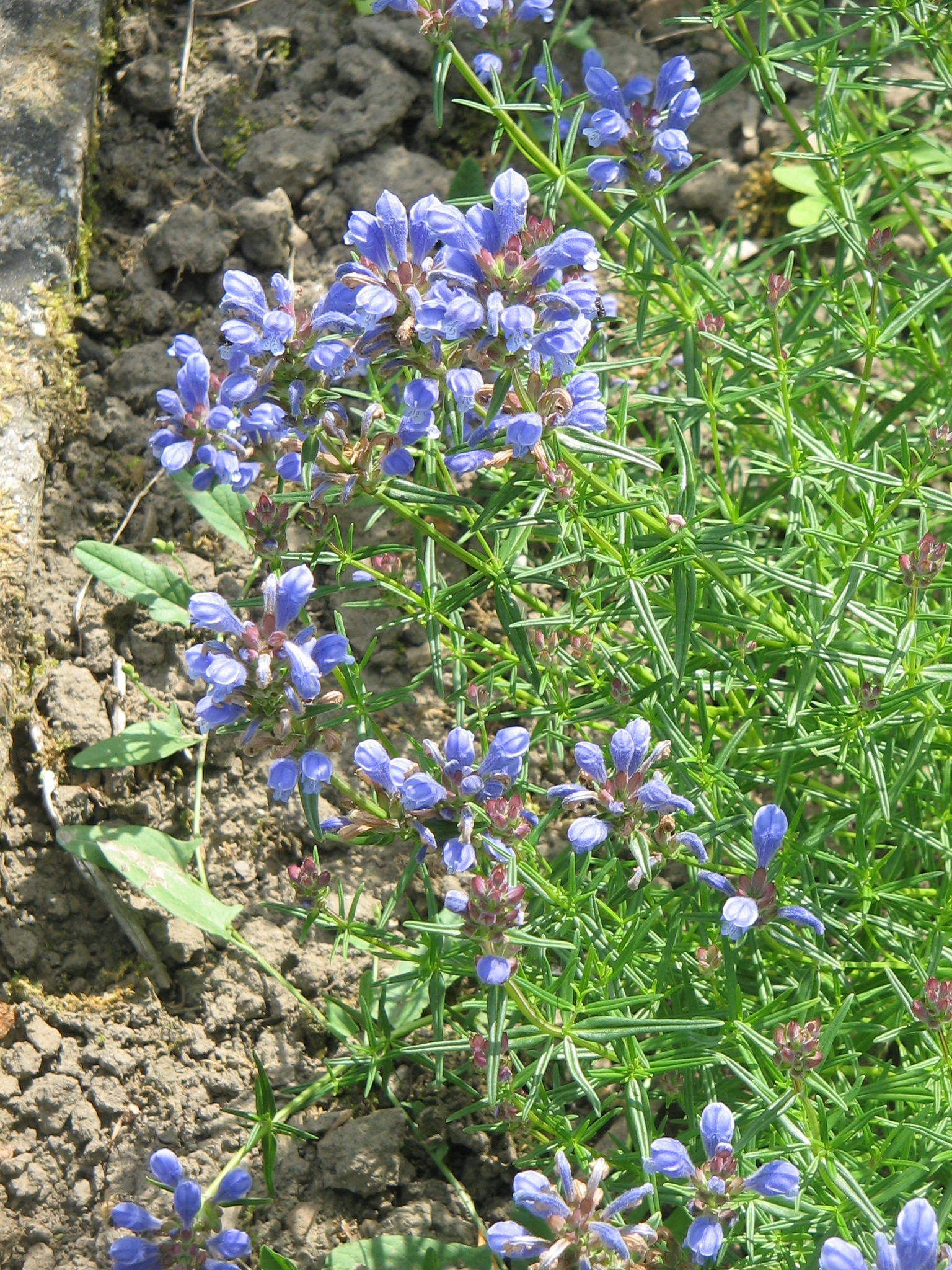 Dracocephalum ruyschiana